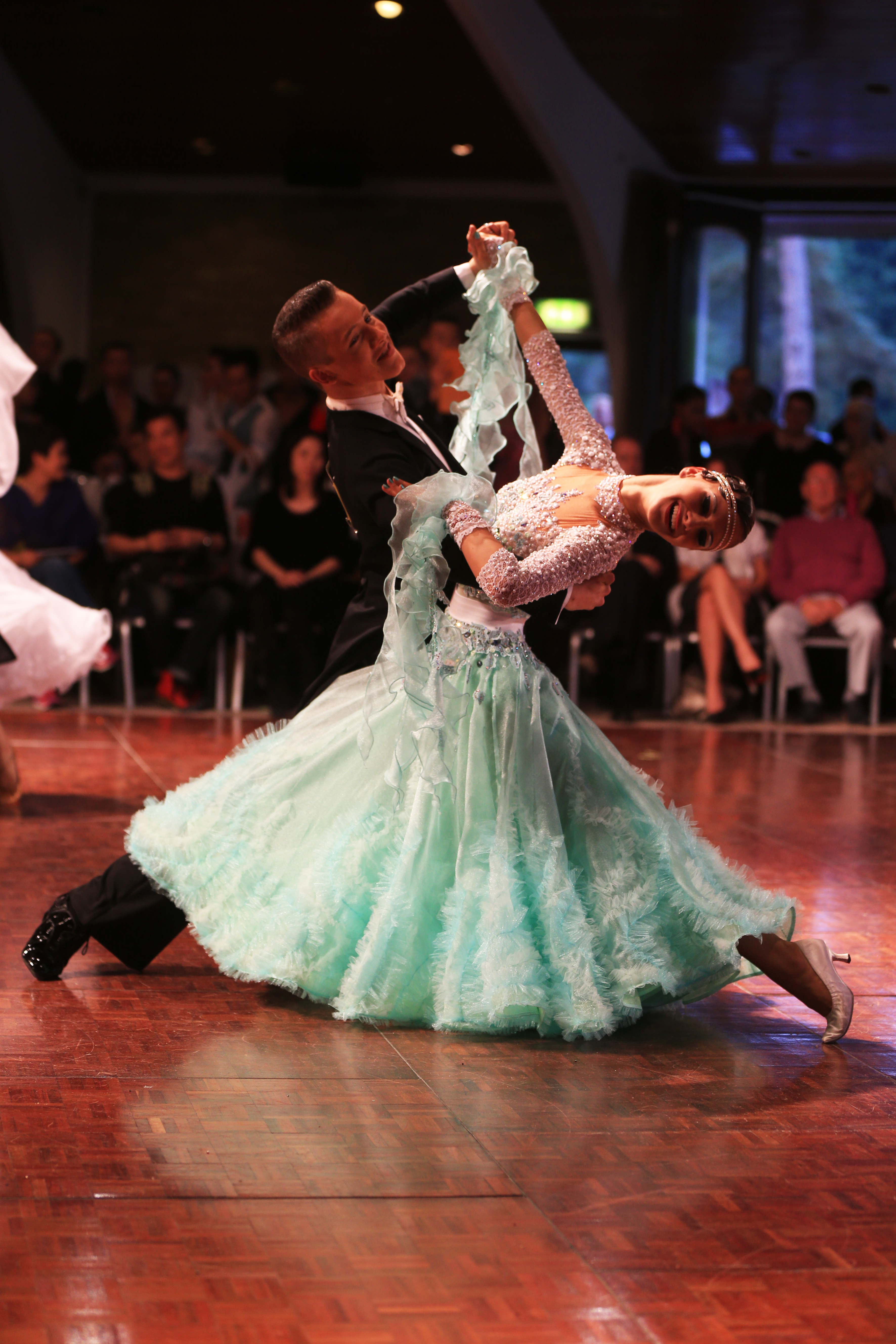 WDC World Youth (Under 21) Ballroom Champions 2013, Michael Foskett & Nika Vlasenko dancing the Waltz